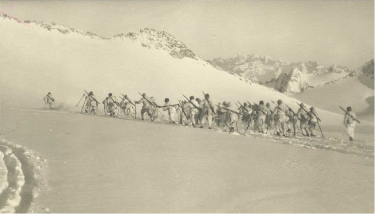 World War 1 - Italian Army: an Italian ski patrol on the Adamello Glacier